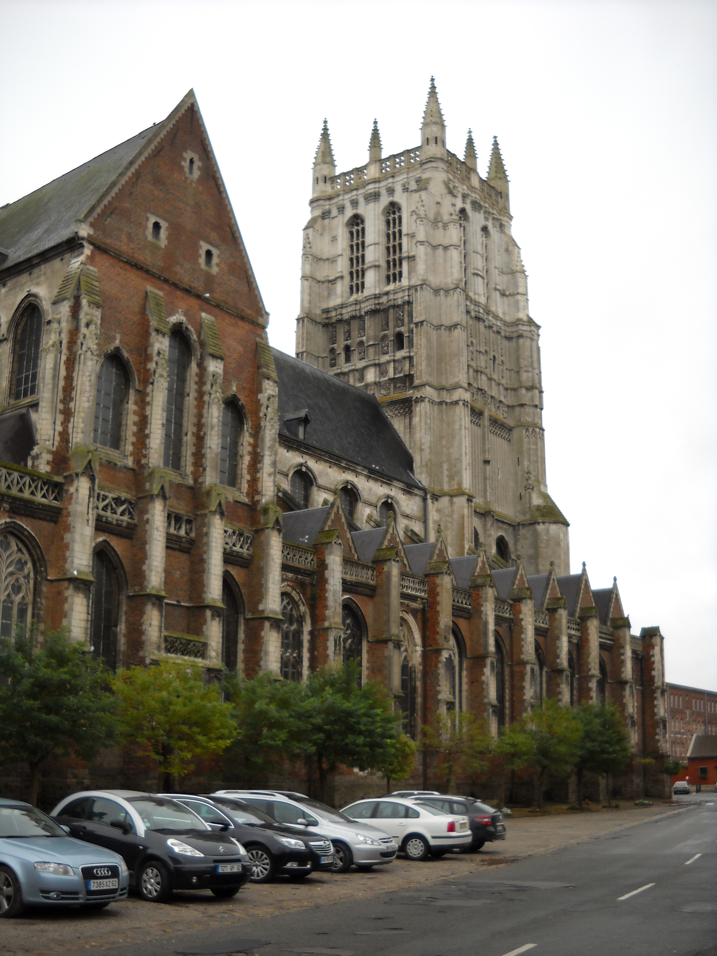 Collégiale Saint-Pierre, in Aire-sur-la-Lys, Pas-de-Calais, France.